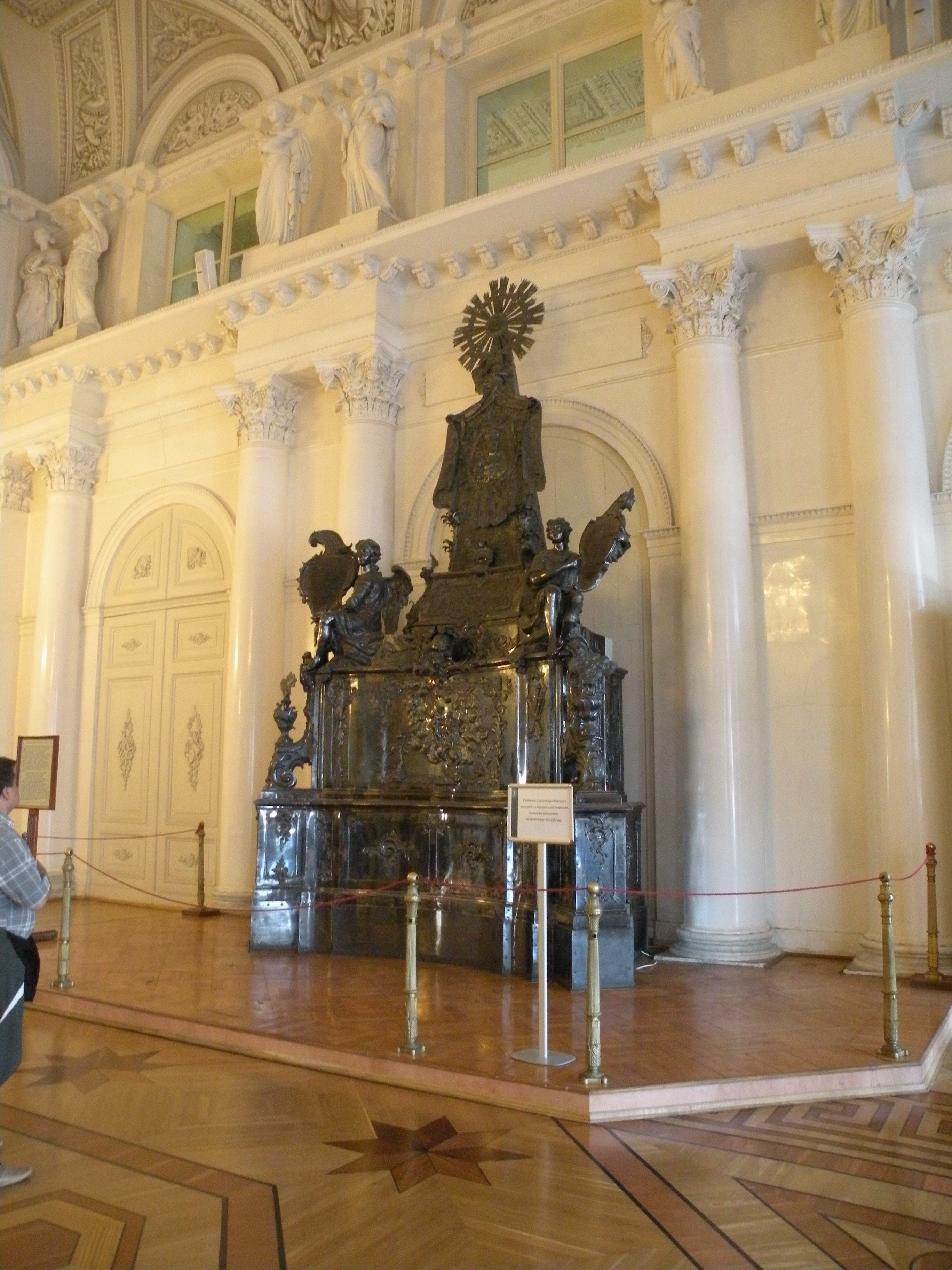 Concert hall (Hermitage)